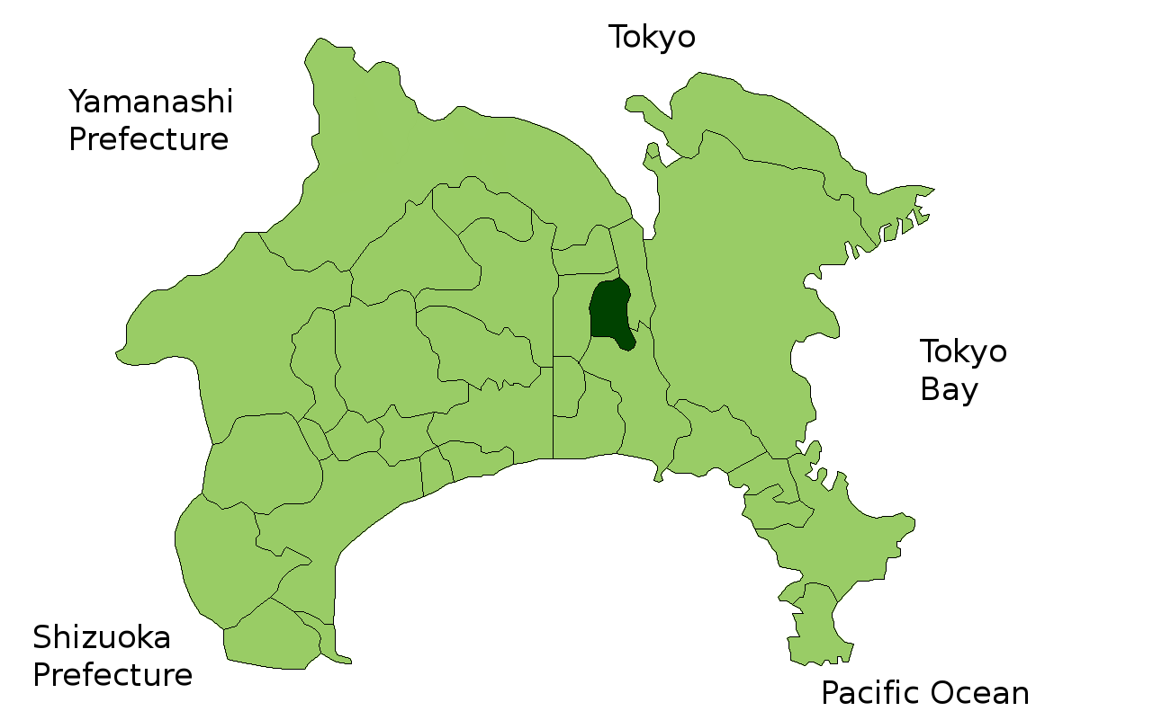 Location Map of Ayase in Kanagawa Prefecture, Japan